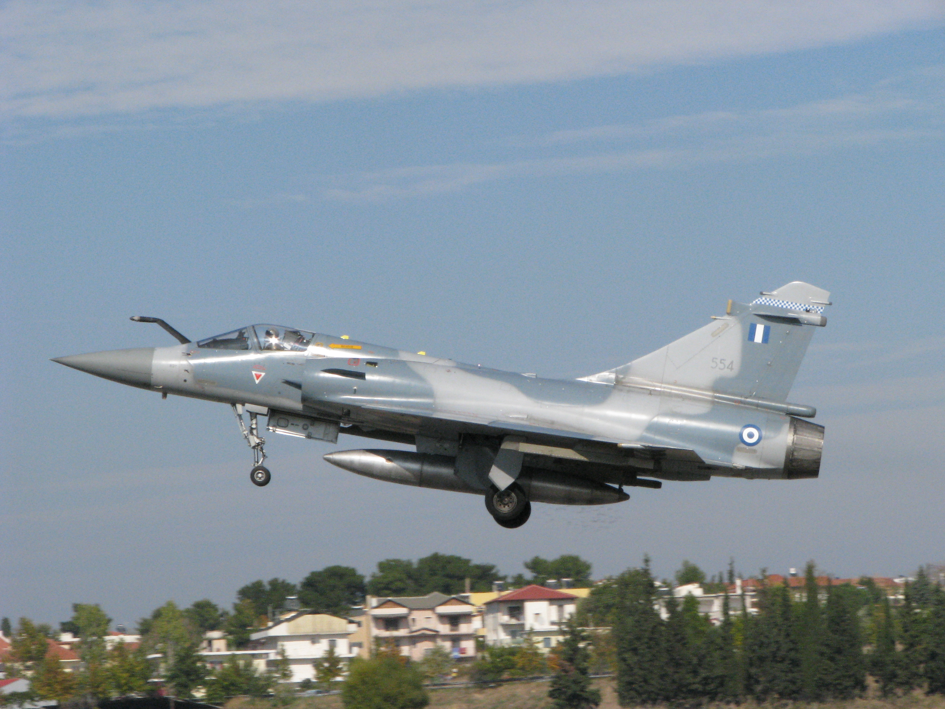 HAF Mirage 2000-5 - Low Pass